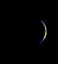 Danjon moon, a photograph taken in Örnsköldsvik, Sweden, 2004.